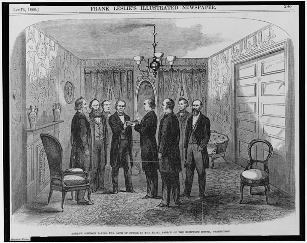 Andrew Johnson taking the oath of office in the small parlor of the Kirkwood House [Hotel], Washington, [April 15, 1865].